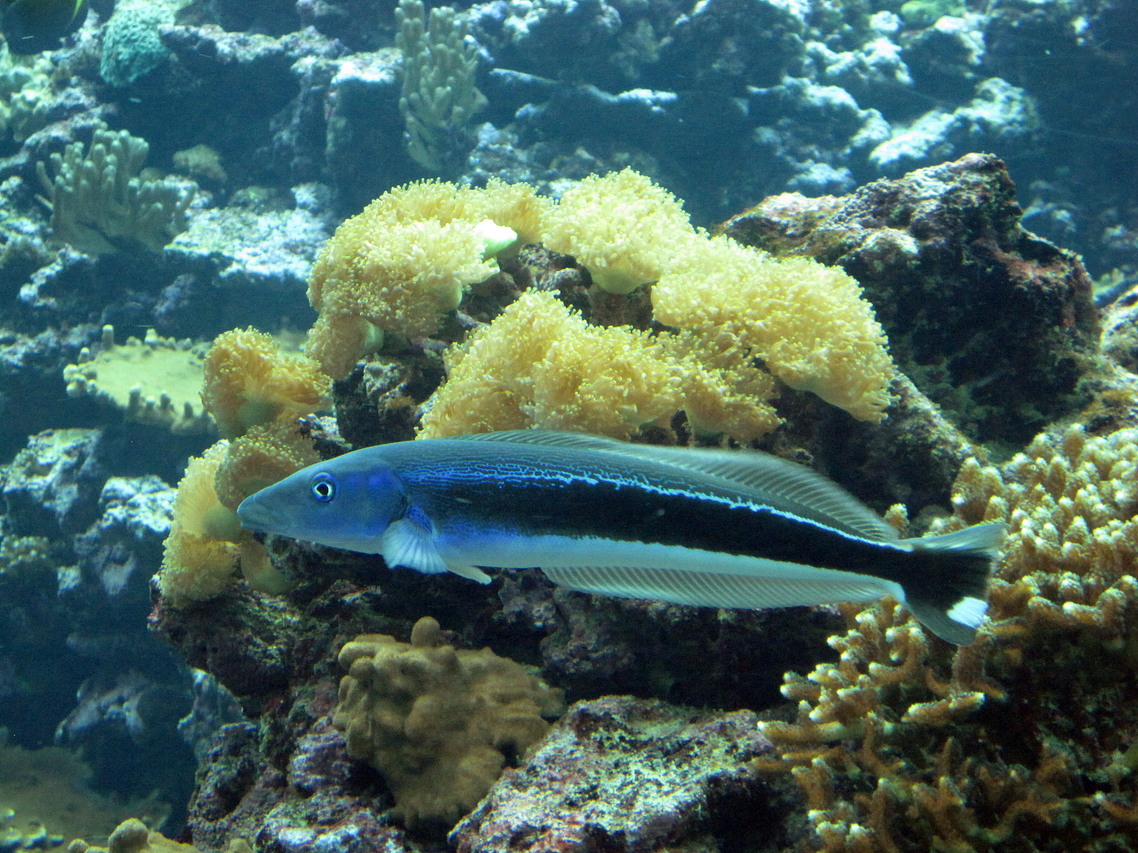 Malacanthus latovittatus (Blue Blanquillo), Burgers zoo (Ocean), Arnhem, the Netherlands